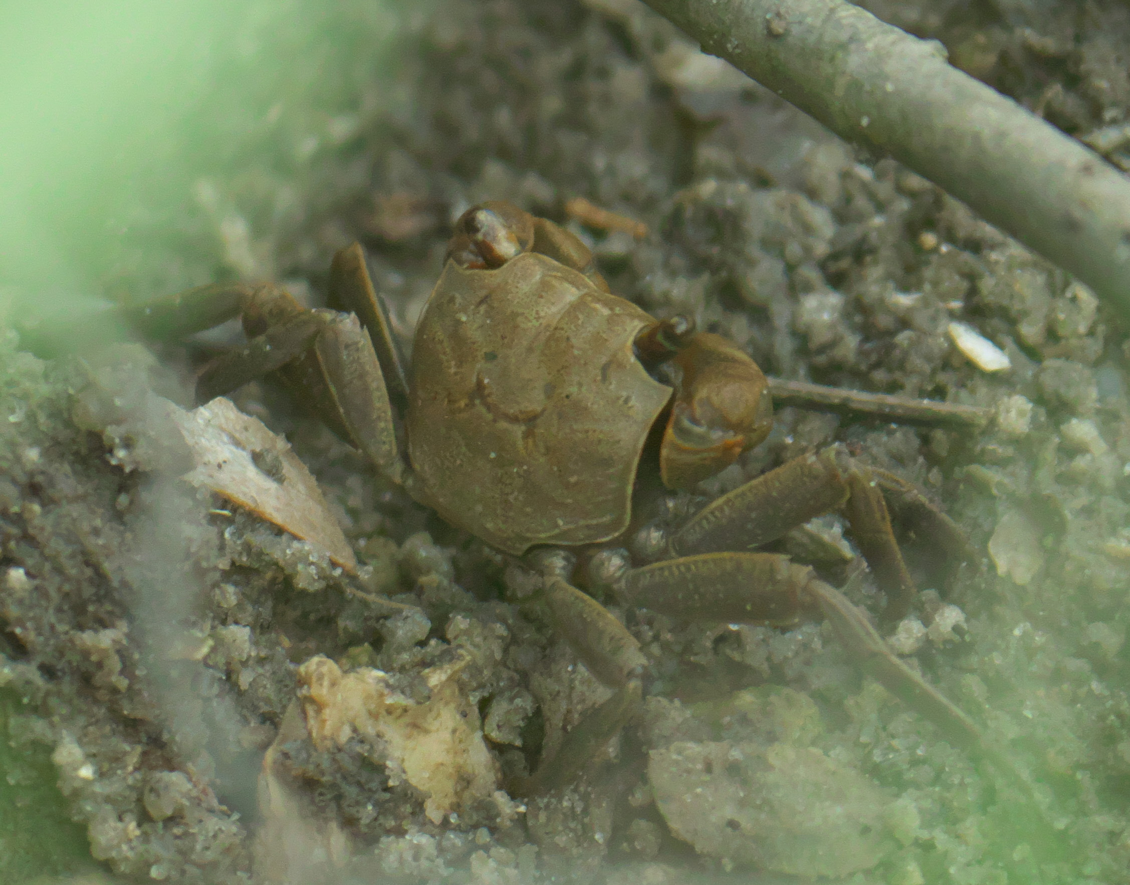 Armases cinereum, Squareback Marsh Crab, ID Confidence: 88